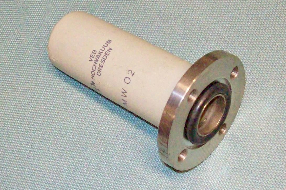 Pirani heat wire pressure/vacuum sensor, flange diameter 64mm